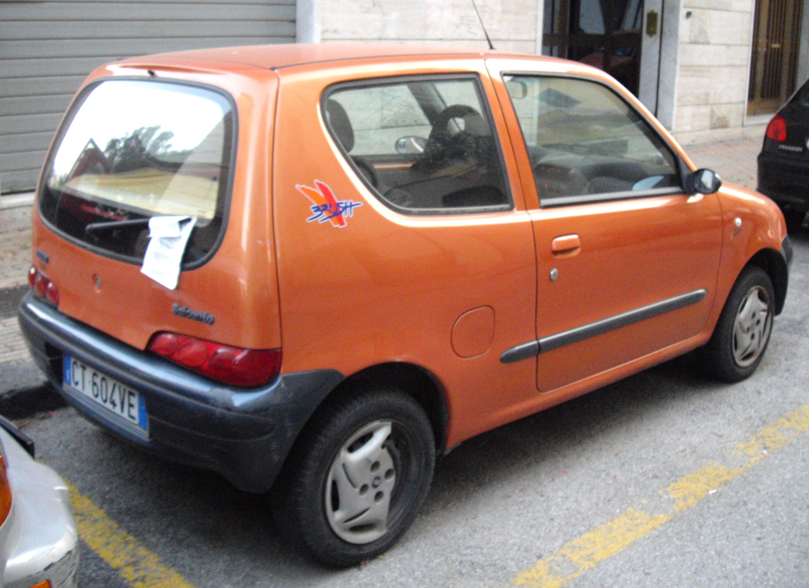 Fiat Seicento Brush car in Italy.